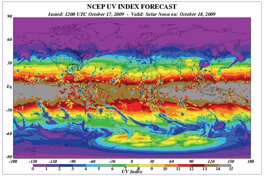 Global UV Index Forecast. Solar noon on 2009-10-18.